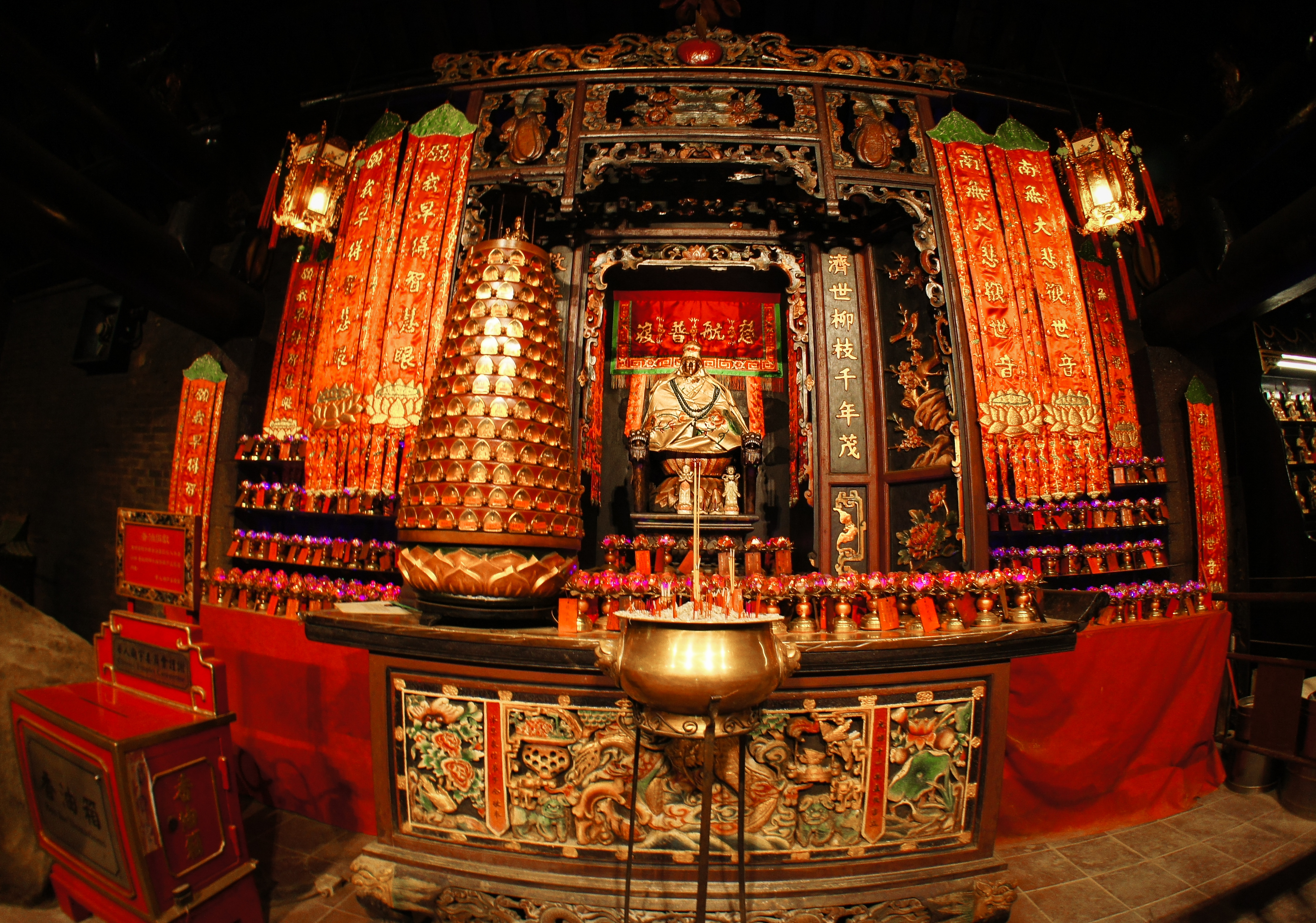 Statue of the Goddess of Mercy (Kwun Yum) in the Lin Fa Temple, Lin Fa Kung Street West, Tai Hang, Wan Chai, Hong Kong.